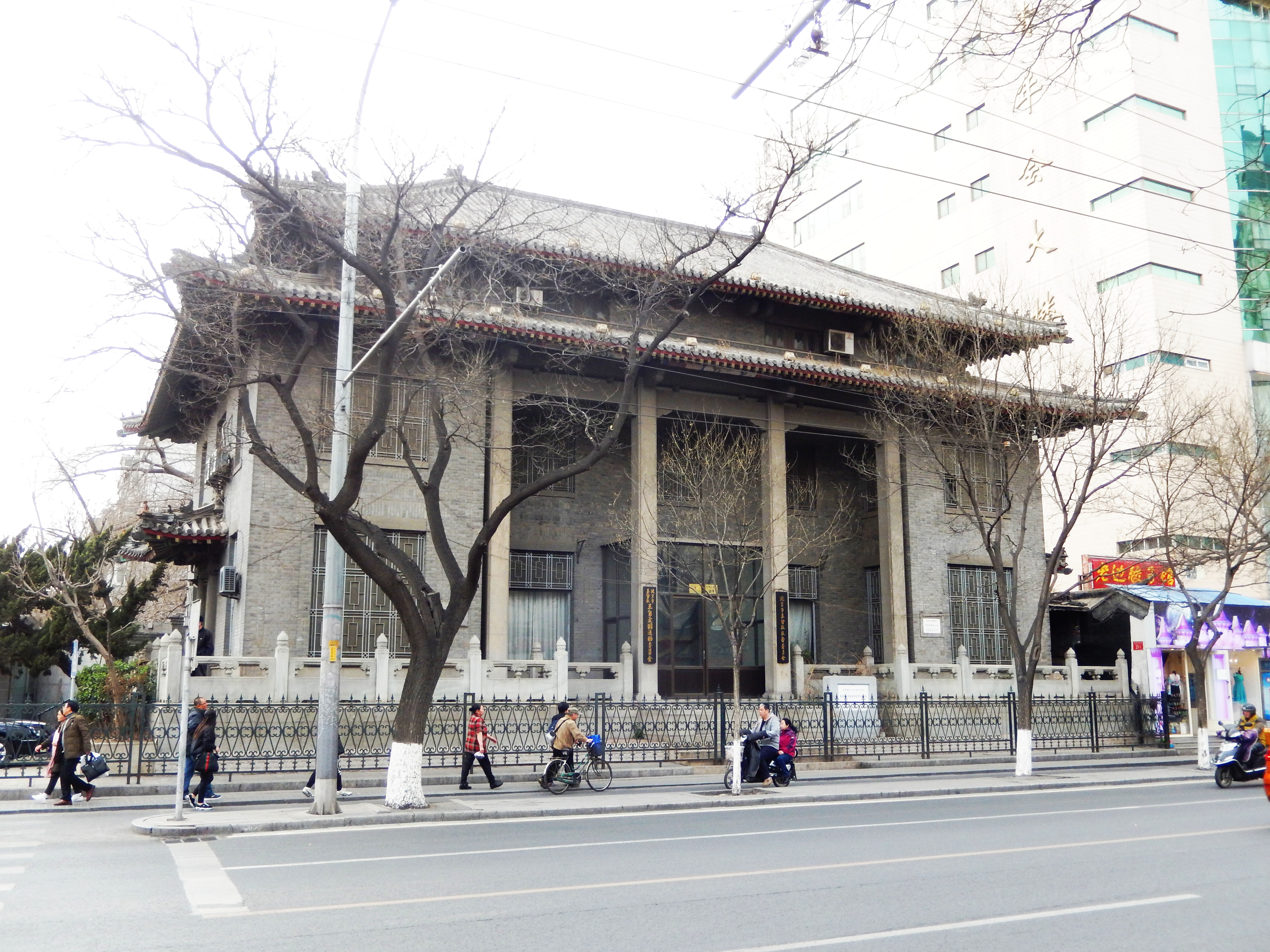 Site of China BIble Society in Beijing, now the office of Beijing Christian "Two Organizations".